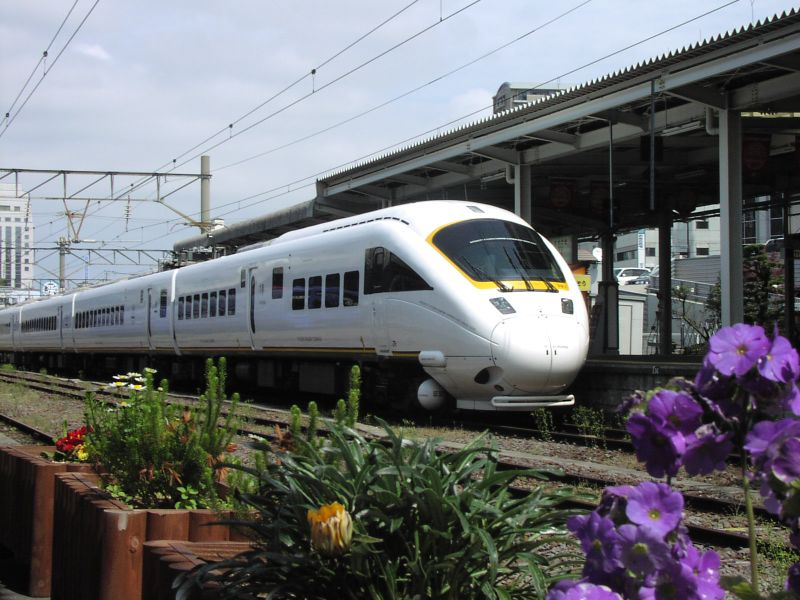 JR Kyushu 885 series EMU on a Kamome service at Nagasaki Station